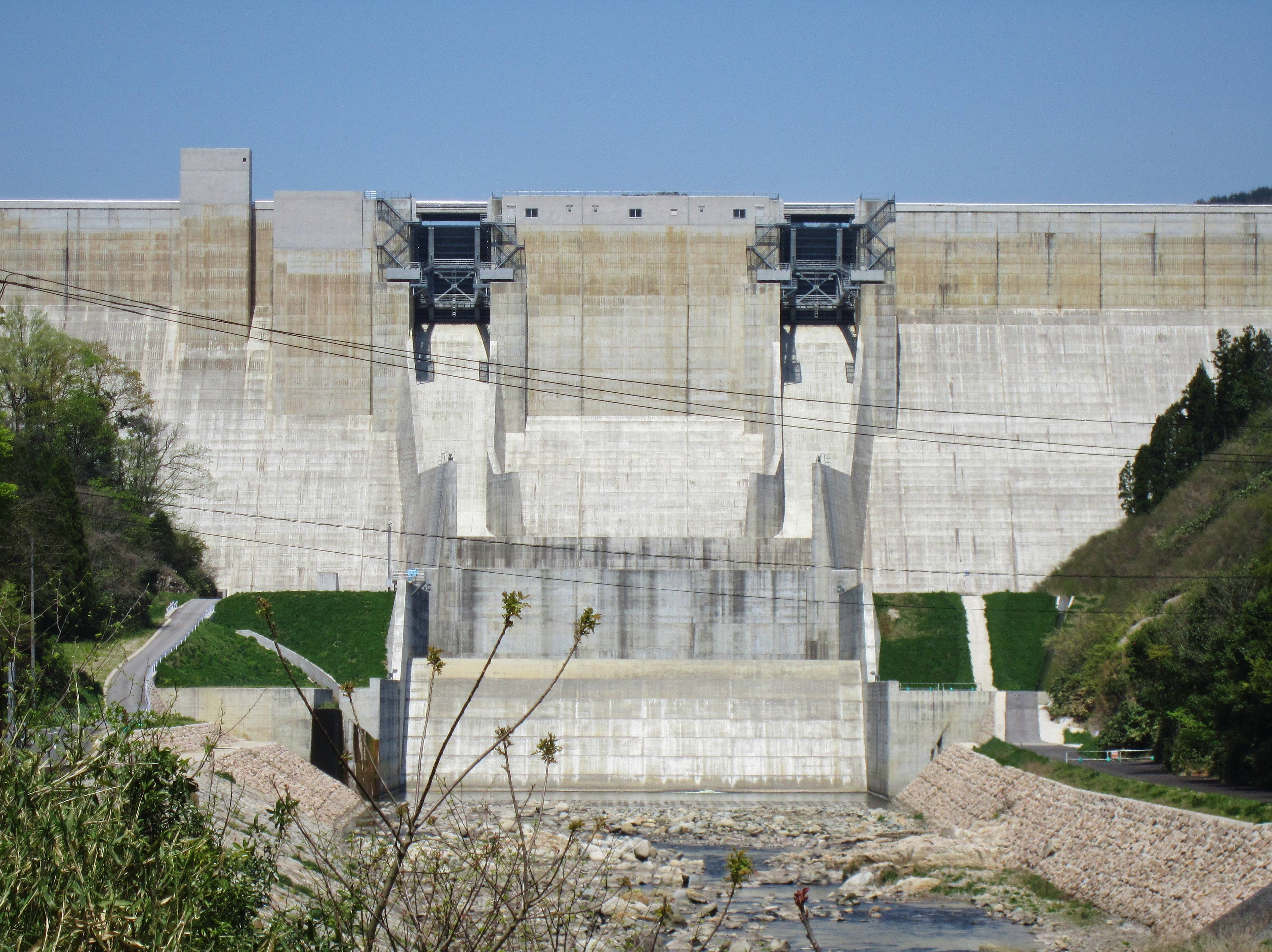 Obara Dam.